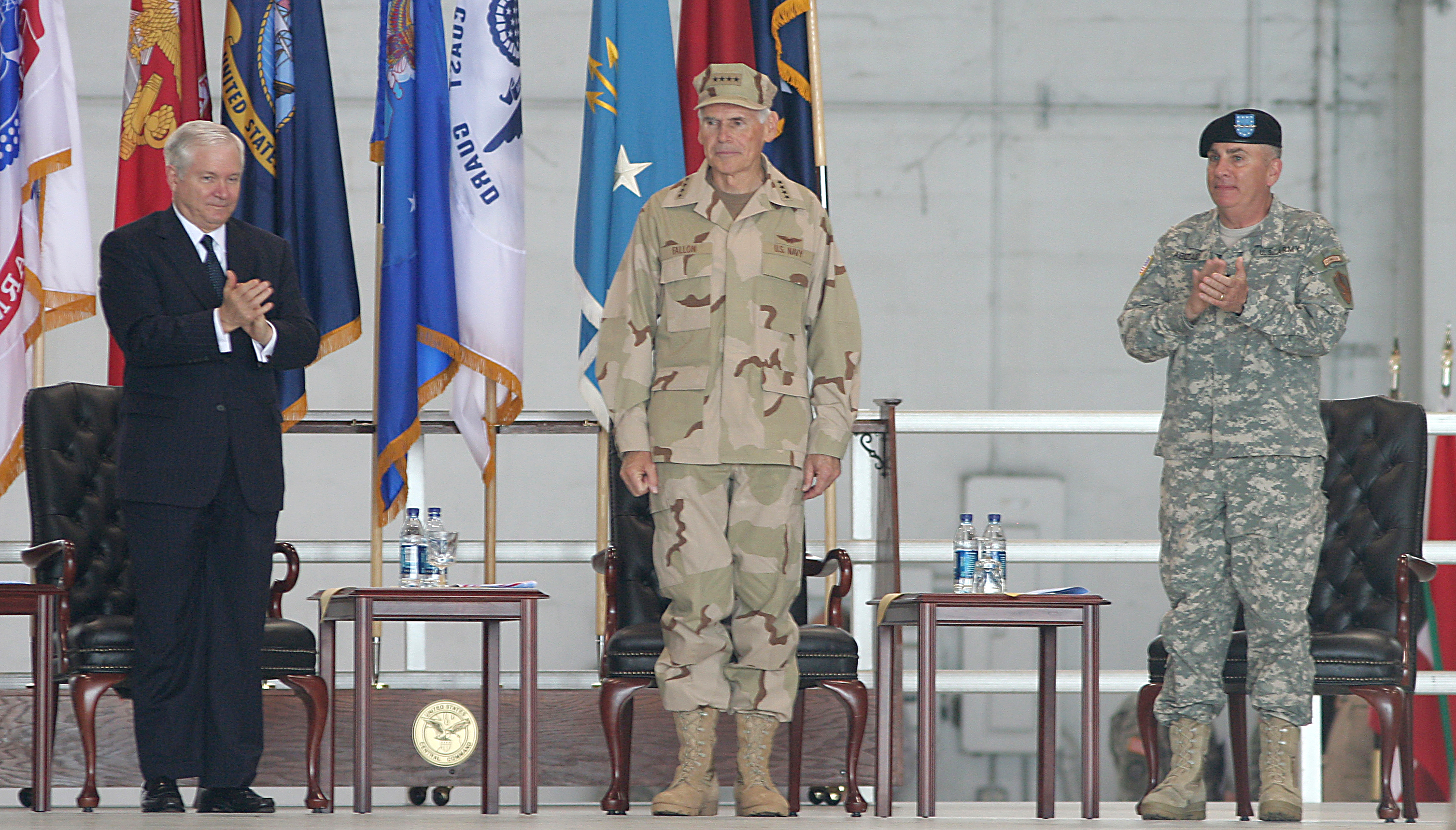 Secretary of Defense, Robert M. Gates and General John P. Abizaid present the Commander of U.S. Central Command, Adm. William J. Fallon. Fallon took charge of CENTCOM at a Change of Command ceremony held at MacDill Air Force Base in Tampa, Fla.